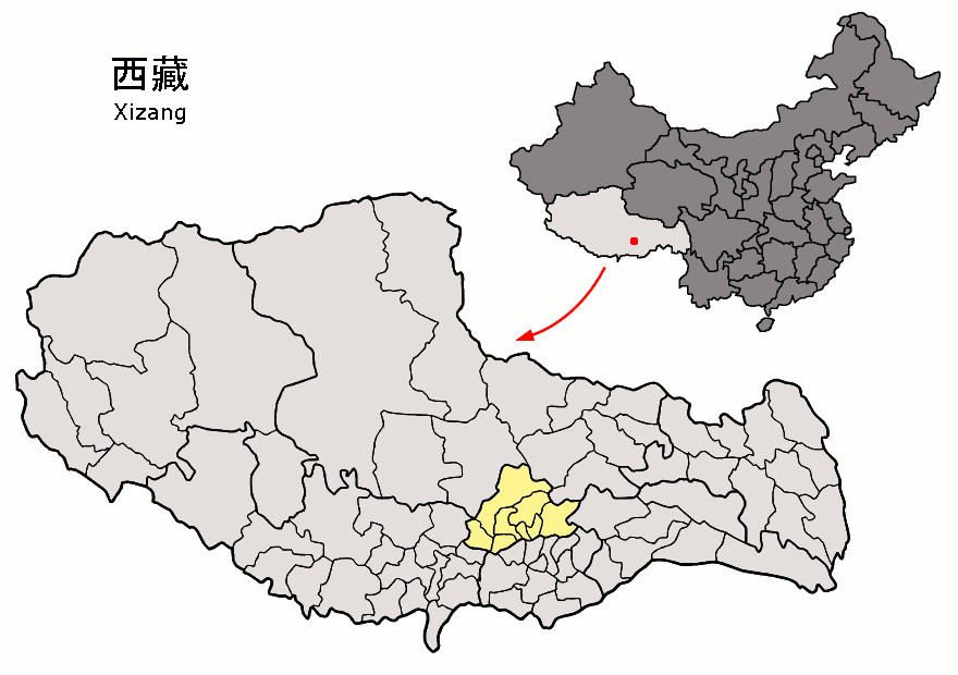 Location of Lhasa Prefecture (yellow) within Tibet (Xizang) autonomous region of China